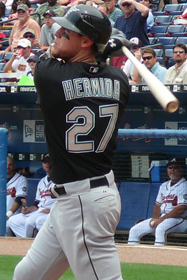 I took this photo on June 5, 2007 06:40, 8 June 2007 . . Chrisjnelson . . 187×280 (110,814 bytes)